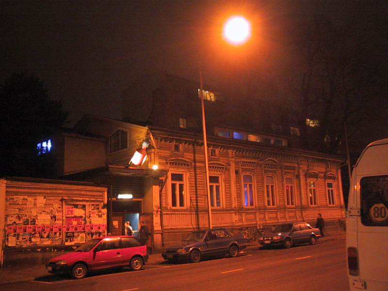 Nightclub Dynamo